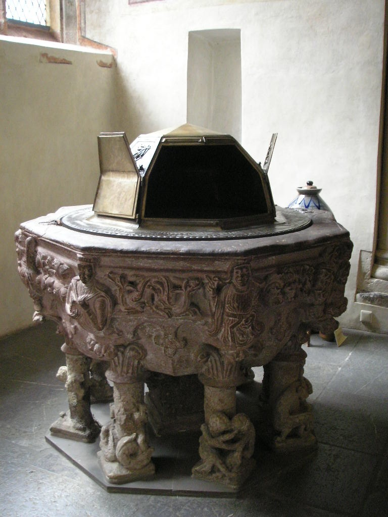 Baptismal font of Limburg Cathedral